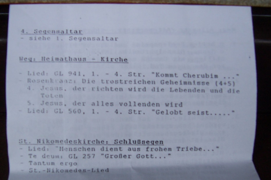 Hymn sheed for the Corpus christi procession on June, 22th 2000